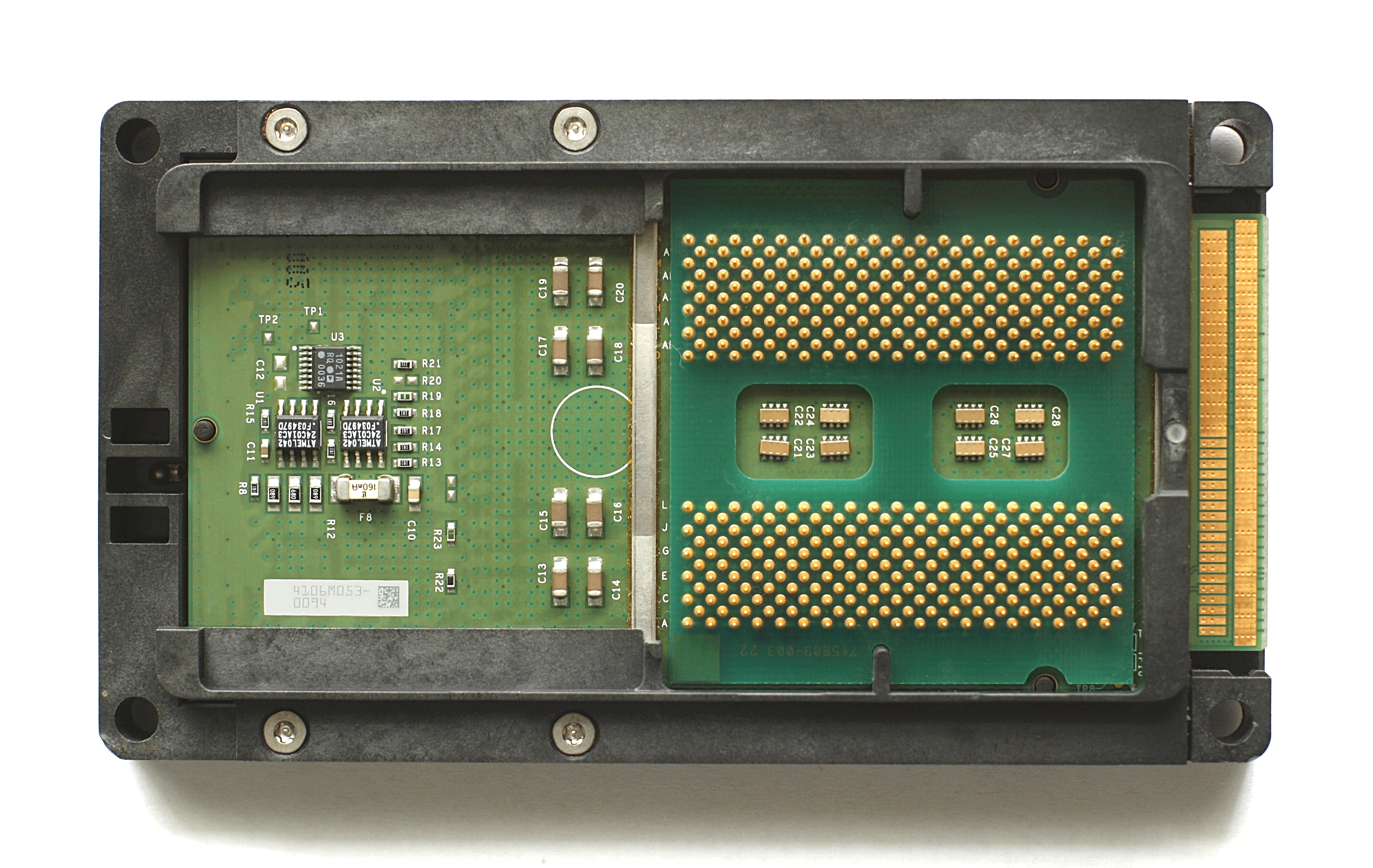 CPU Intel Itanium Engineering Sample